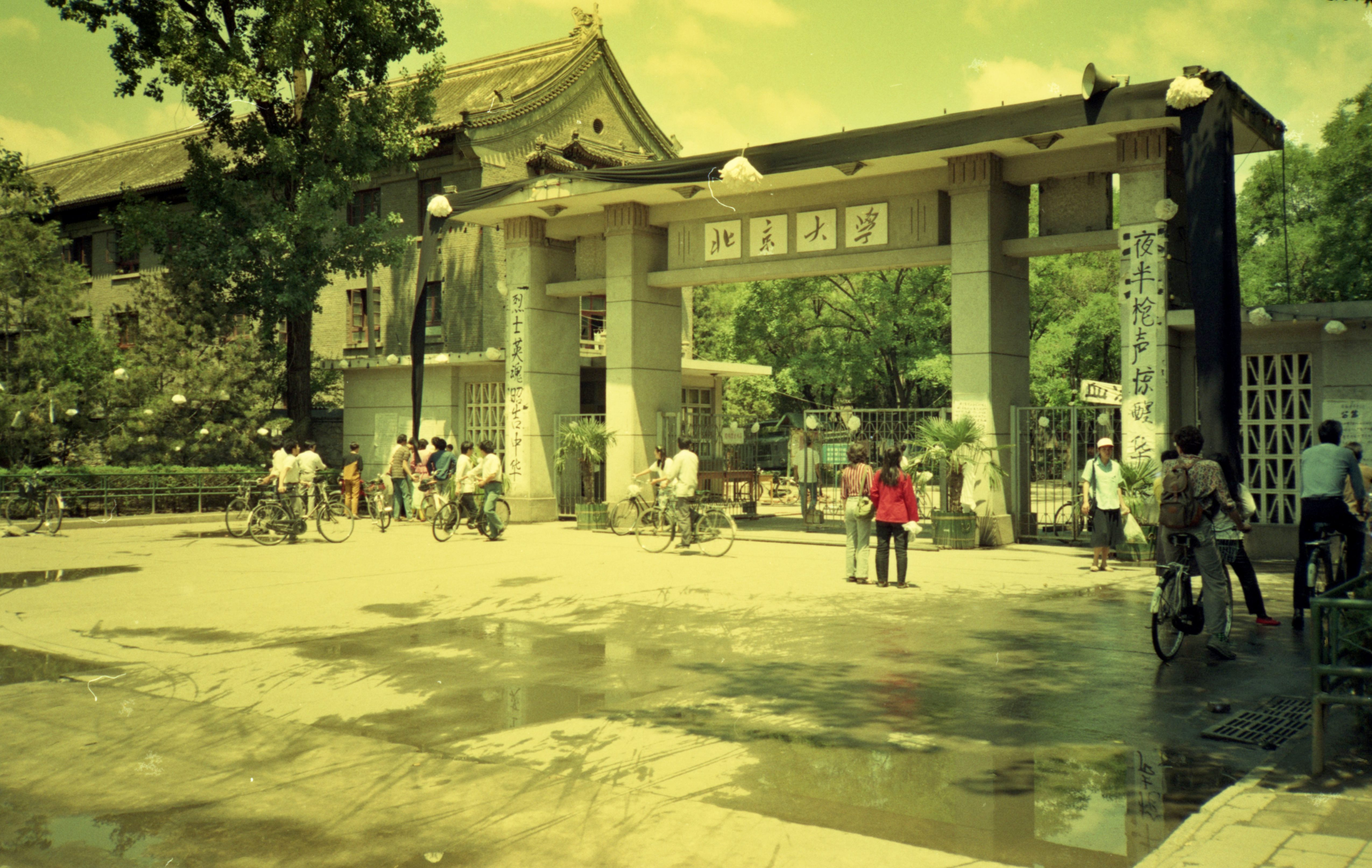 Mourning banners hung across the south gate of Beijing University Picture taken between 7th and 11th june 1989, a few days after the june 4th repression in Tiananmen square